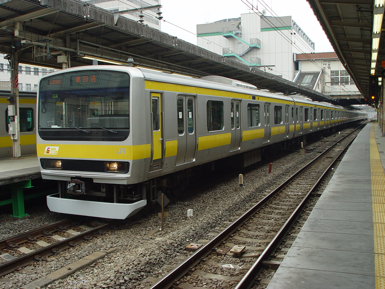 A Sobu Line E231 series EMU at Mitaka Station